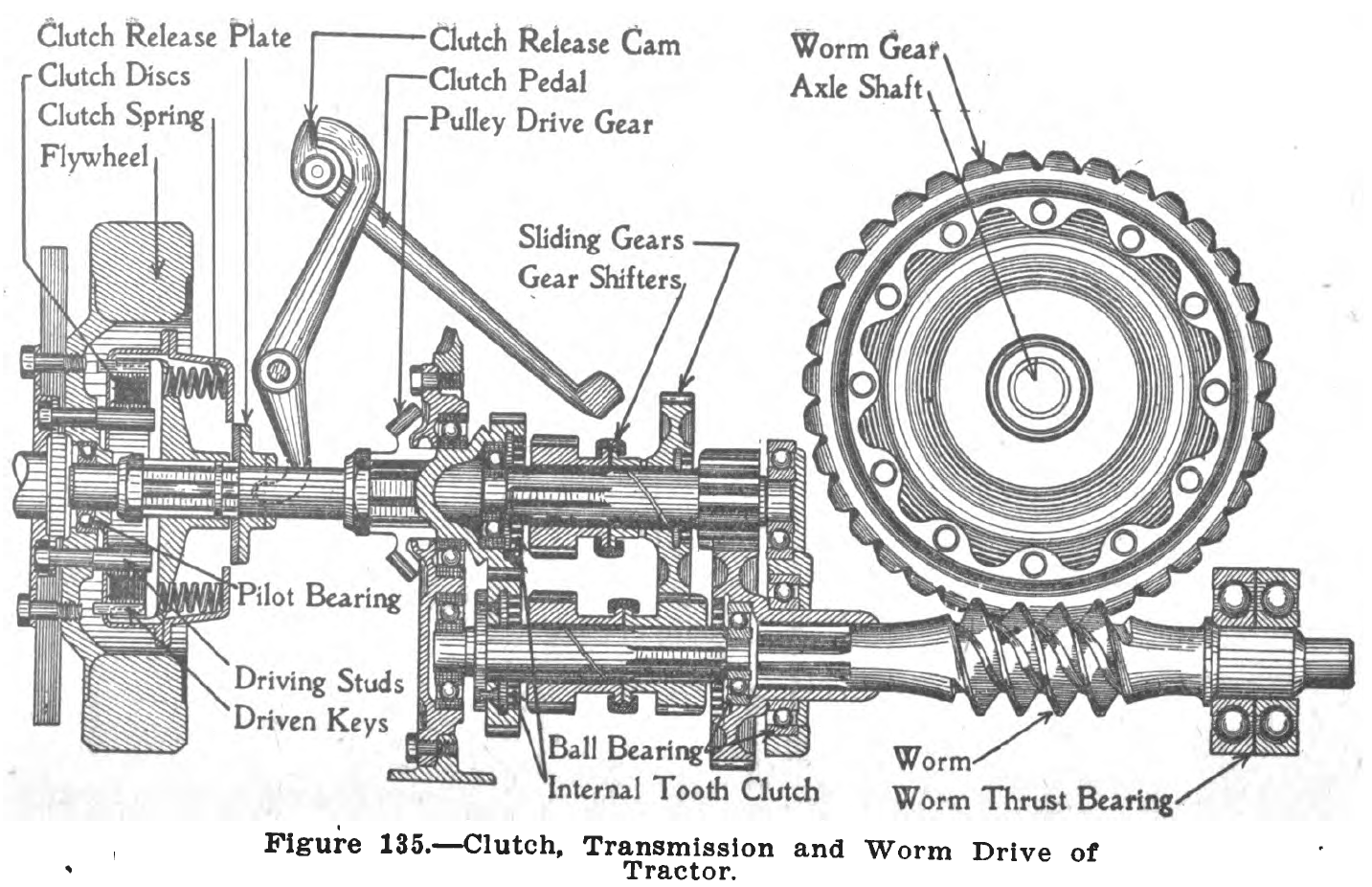 A cutaway view of the clutch, transmission, and rear of the original Fordson tractor, with principal parts labeled in English.